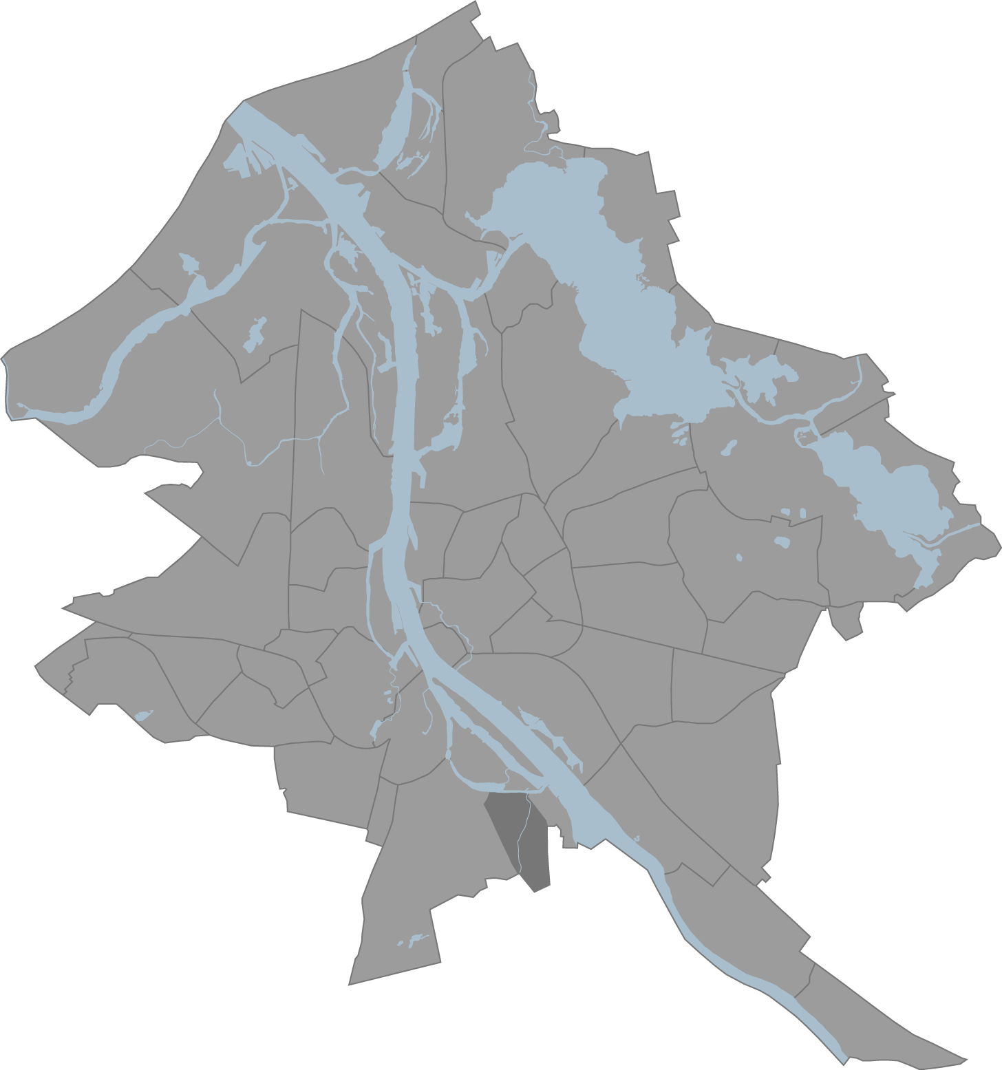 A map of Riga, Latvia with the eponymous commune highlighted